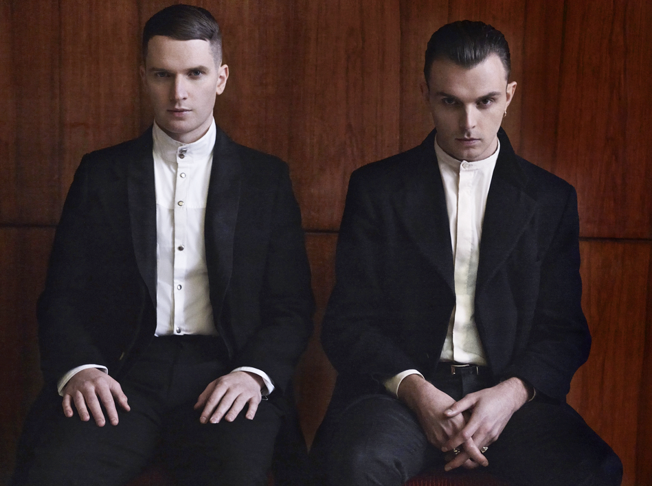 Hurts Press Photography